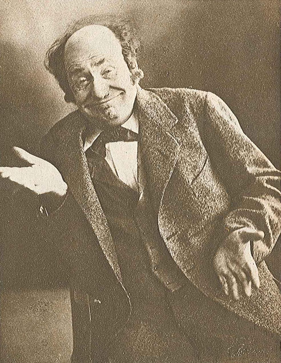 John Liander (1863-1934), Swedish actor and theatre director. Here seen in a part in the 1916 revue Stockholmsjobb.